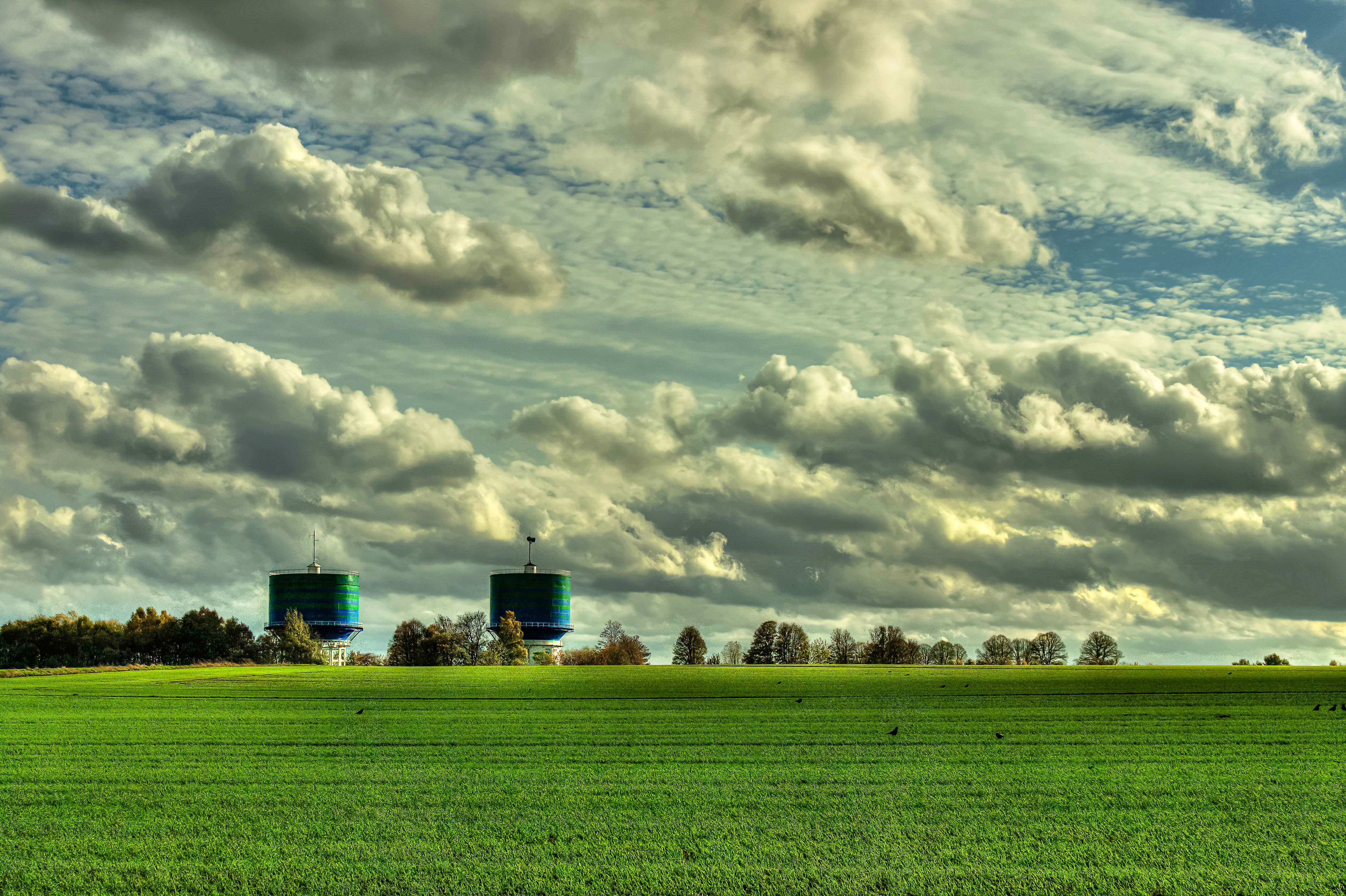 This is a photograph of an architectural monument., no. 33